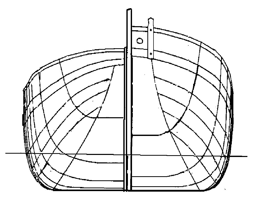 Drawing of a Stevenaak, a type of aak, which is a type of Dutch barge.